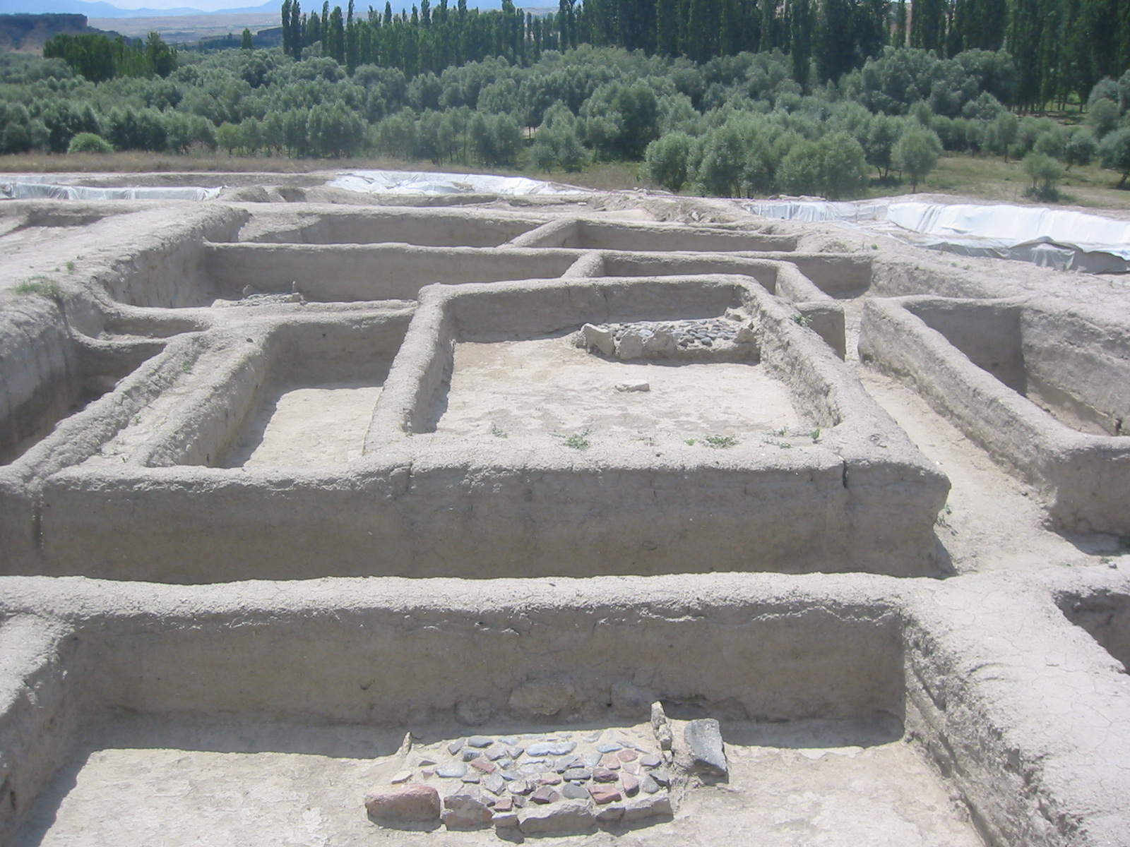 Aşıklı Höyük in province Aksaray, Turkey